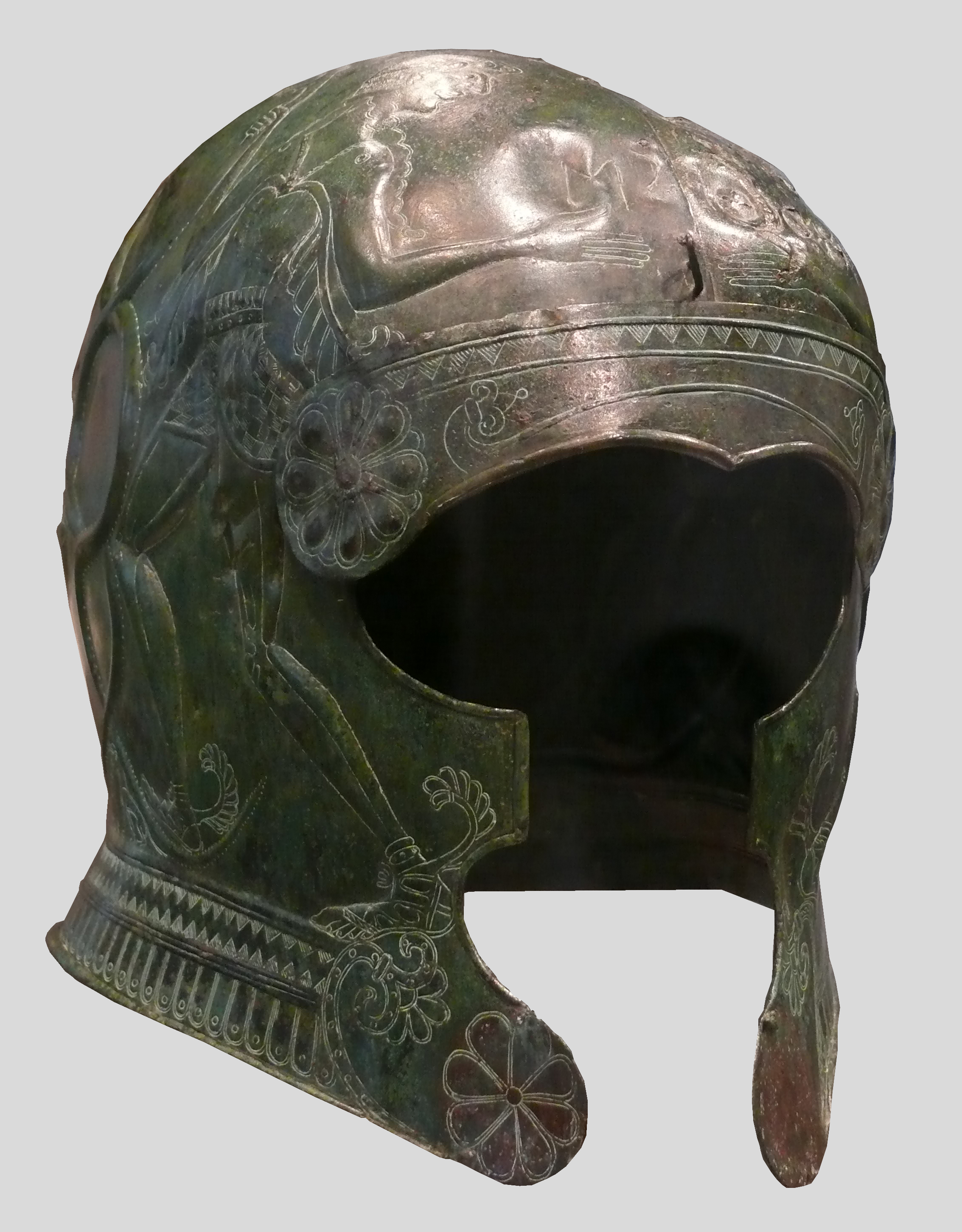 Cretan bronze helmet in the Metropolitan Museum of Art, New York, NY. Late seventh century BC Gift of Norbert Schimmel Trust 1989.281.49-50